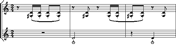 From duet N.42, Béla Bartók, showing the sign used for the pizzicato Bartók.